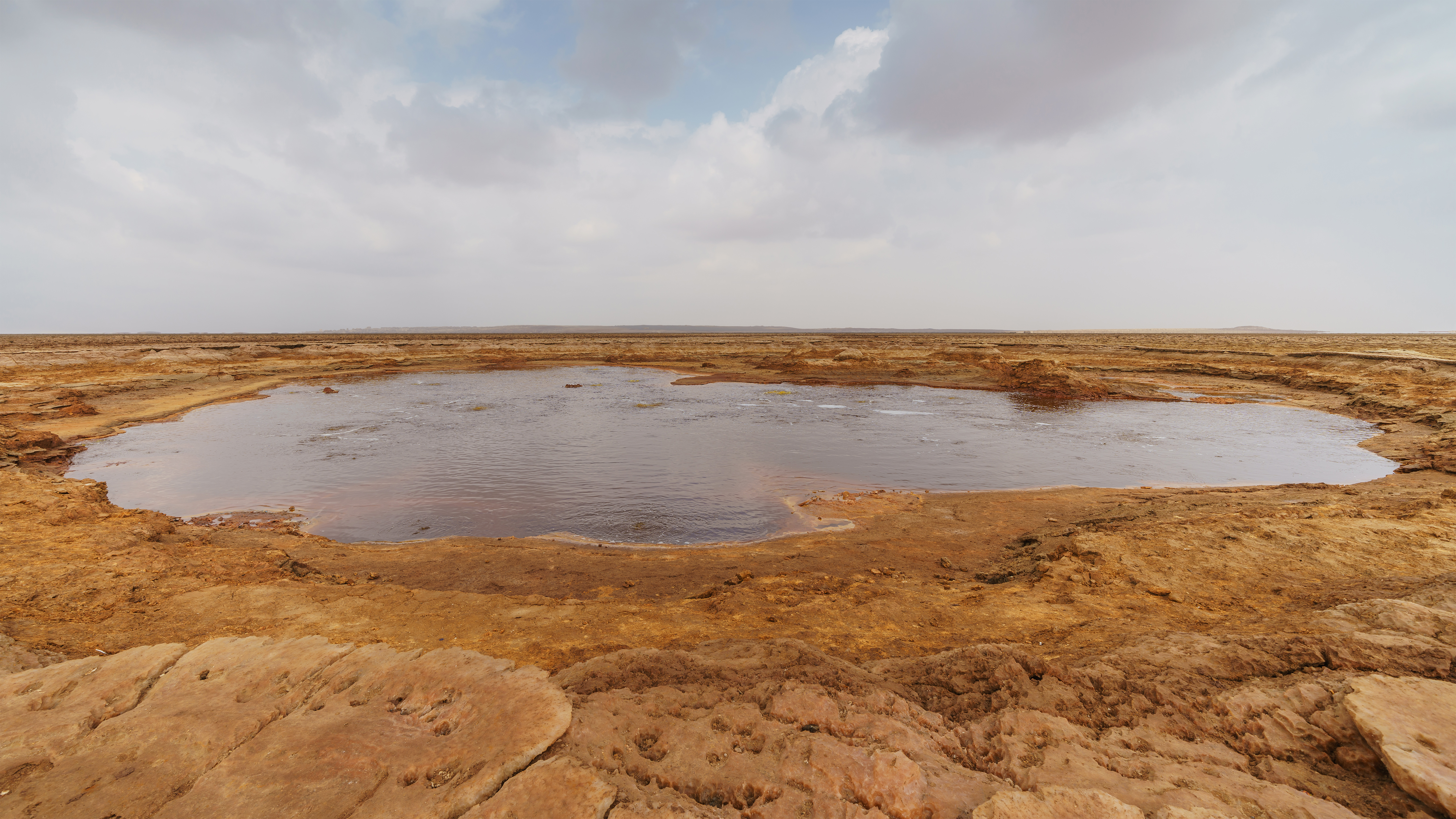 Lake with hot springs (Gaet'ale Pond) – landscape at Dallol volcano, Afar Region, Ethiopia